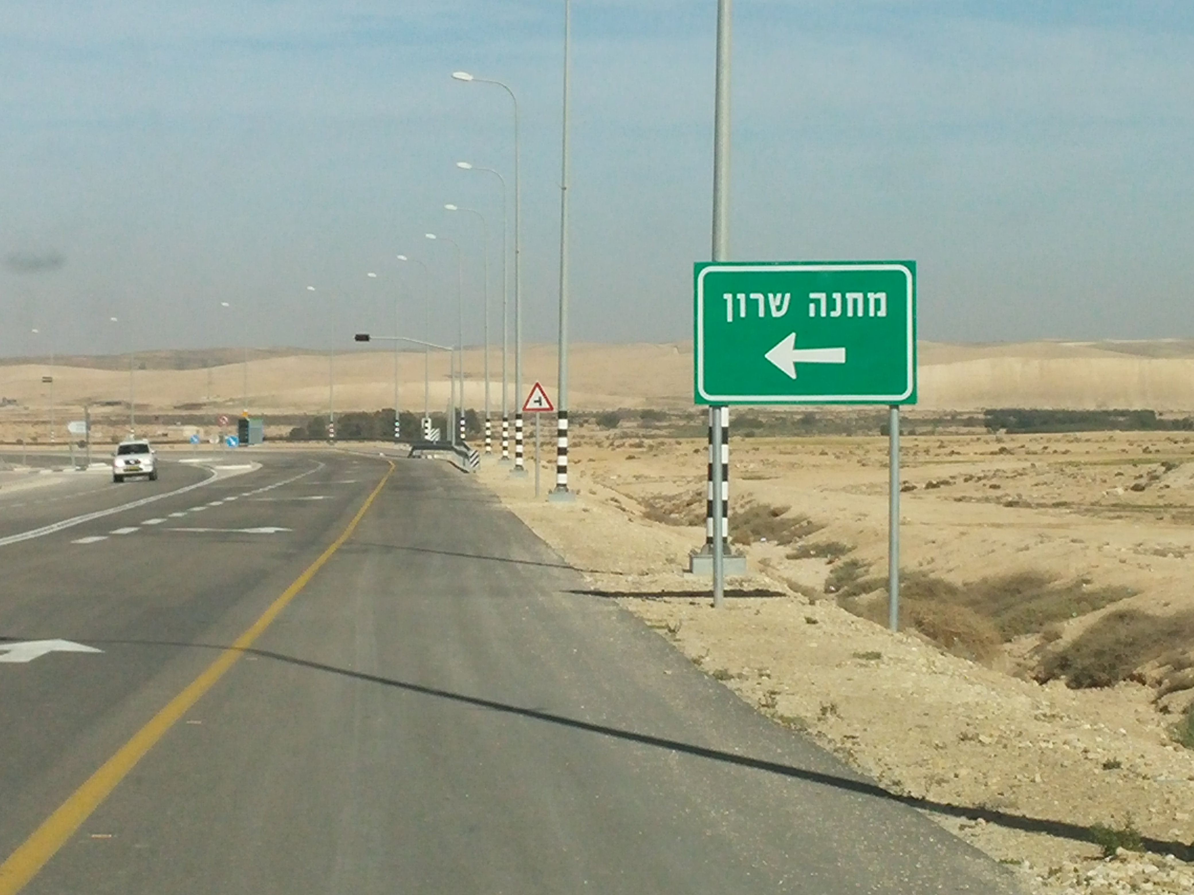 Camp Sharon